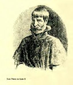 Image of Juan Ponce de Leon II at